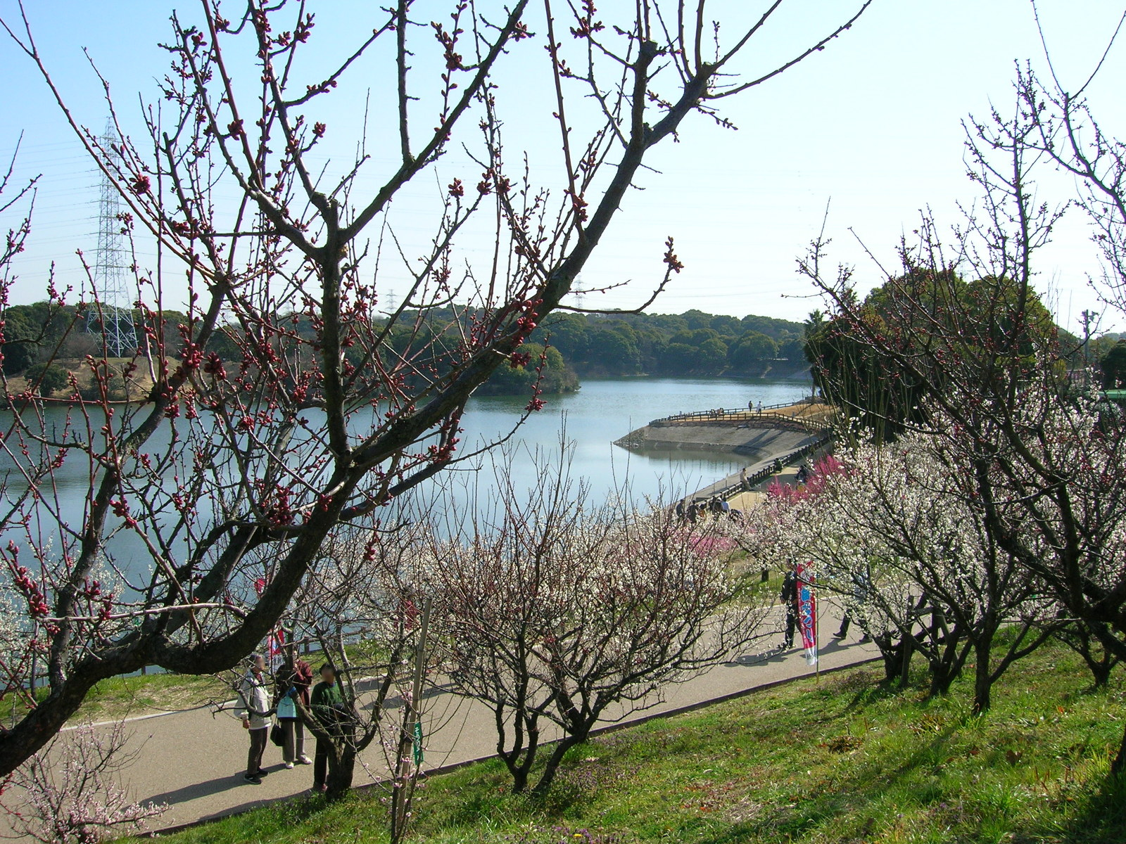 Sori-ike (Sori pond) Loc: Sori Greenery & Fureai Park, Chita city, Aichi Prefecture, Japan. 佐布里池 撮影場所 愛知県知多市・佐布里緑と花のふれあい公園